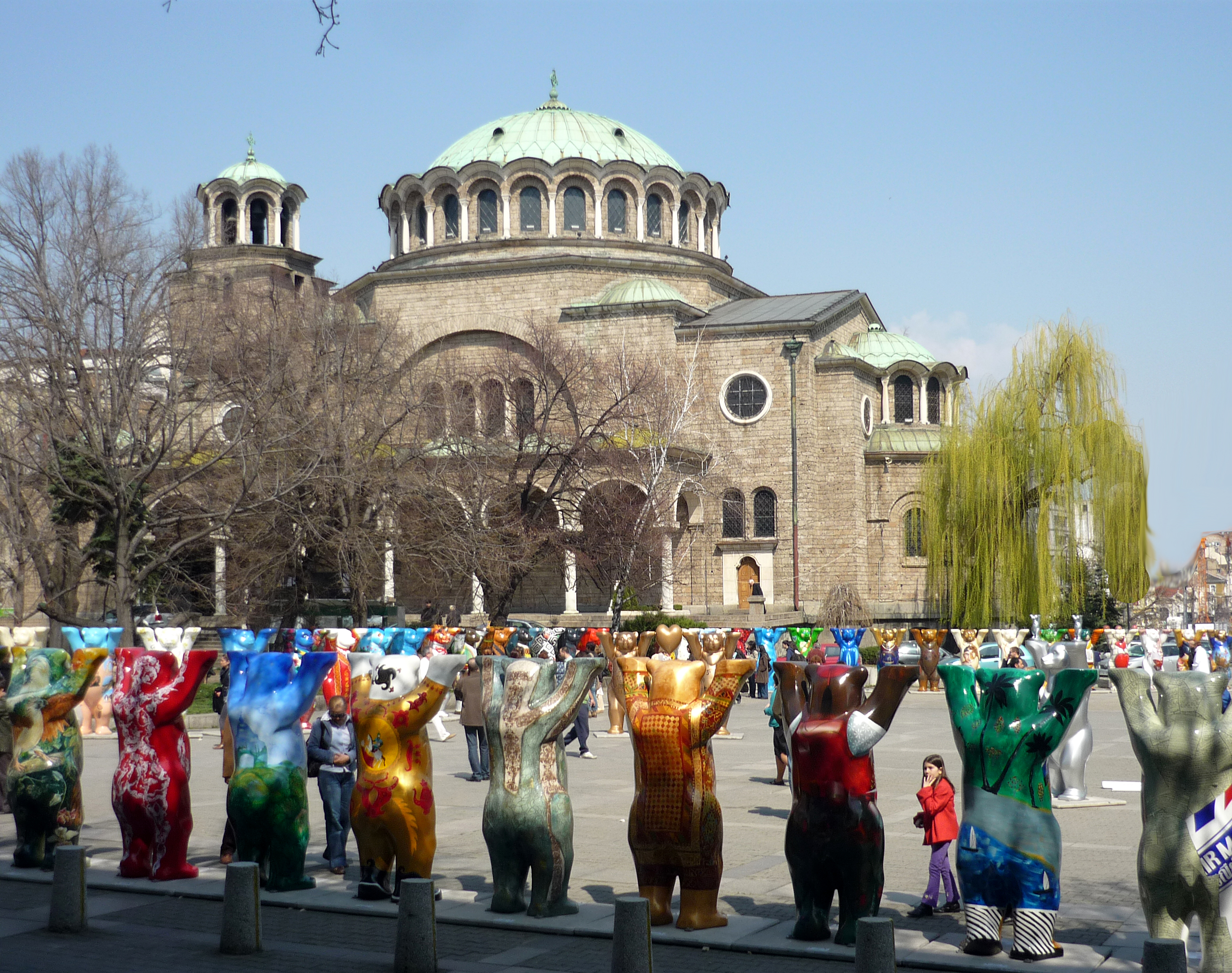 United Buddy Bears in Sofia, Bulgaria